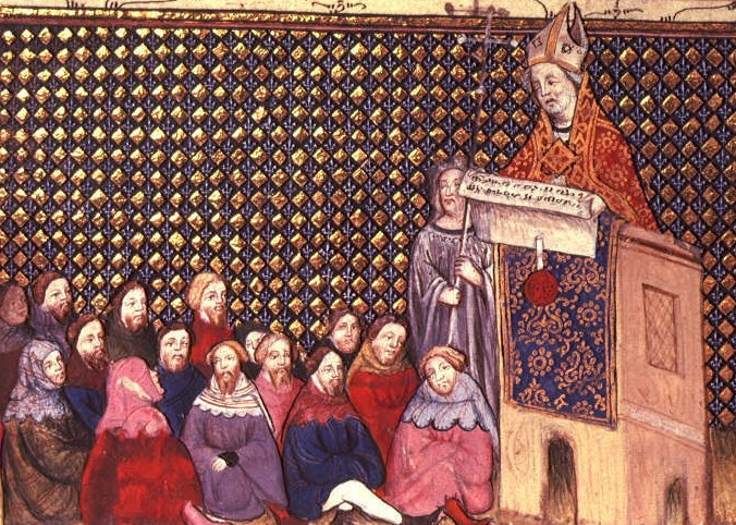 Free to view library image